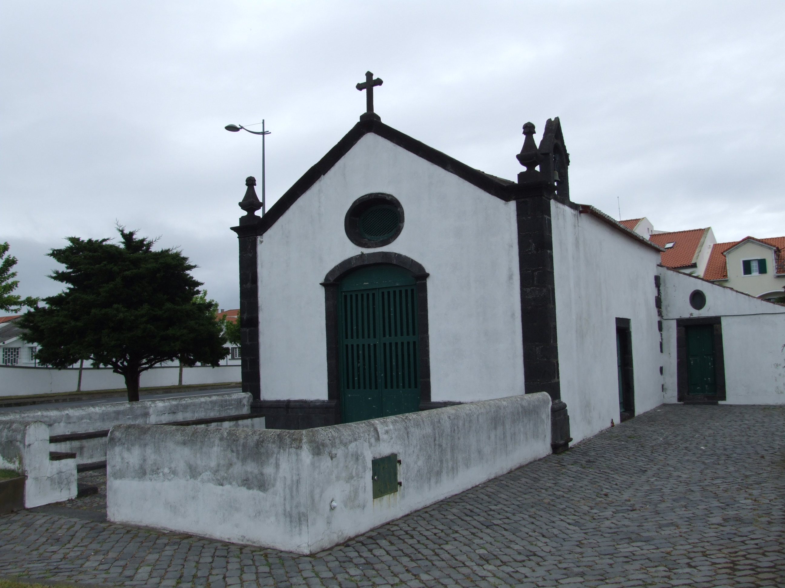 The Chapel of São Gonçalo, São Pedro, Ponta Delgada, São Miguel (Azores), Portugal